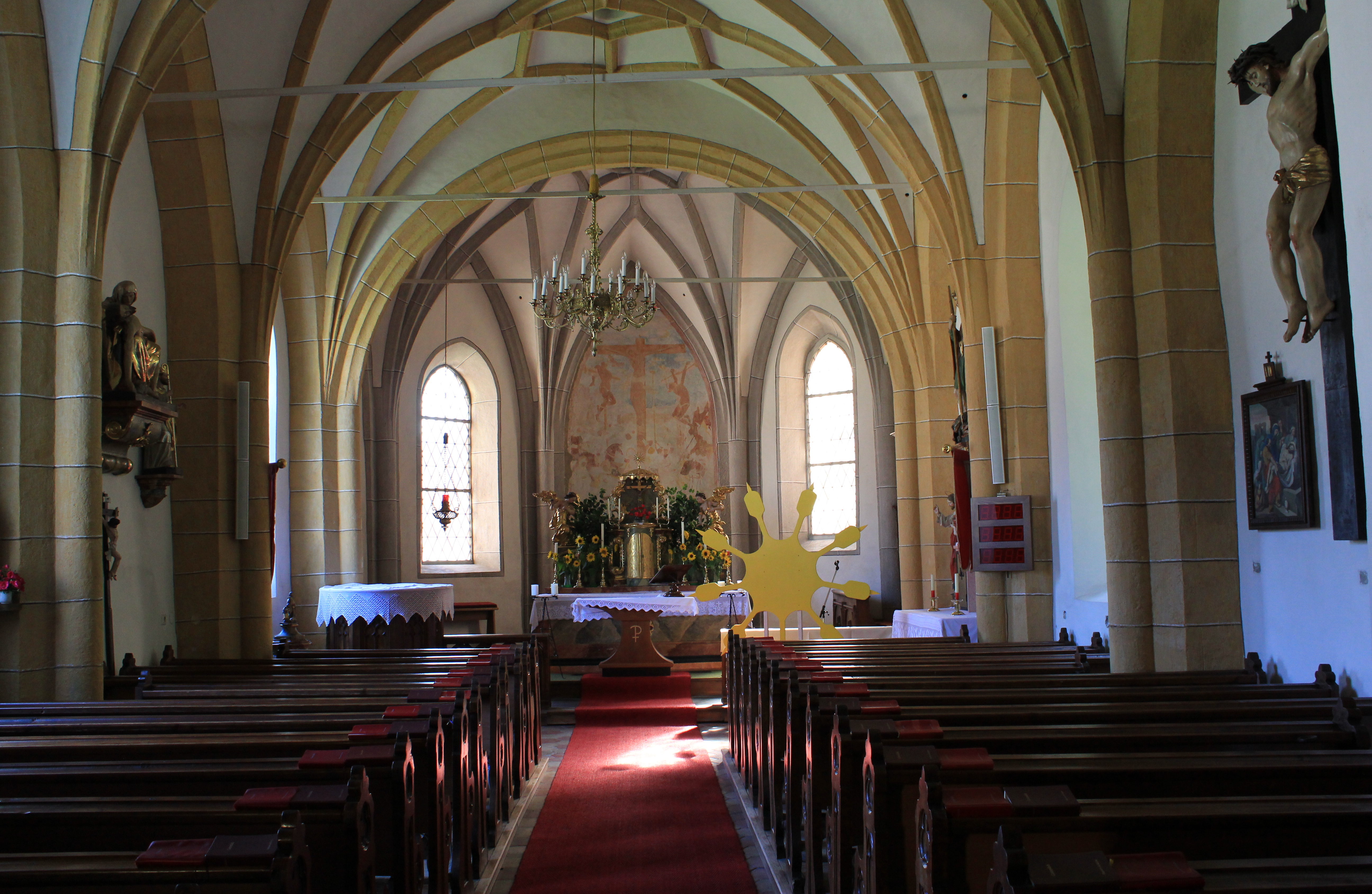 Parish church Würmlach in the community of Kötschach-Mauthen